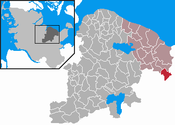 This map shows the area of the Gemeinde (municipality) Kirchnüchel in the Kreis (district) Plön, Schleswig-Holstein, Germany.